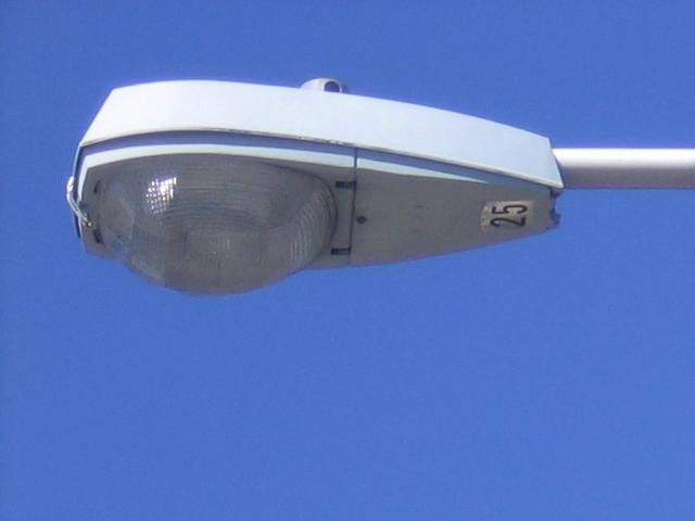 History of street lighting : General Electric, M150 - semi-cutoff version